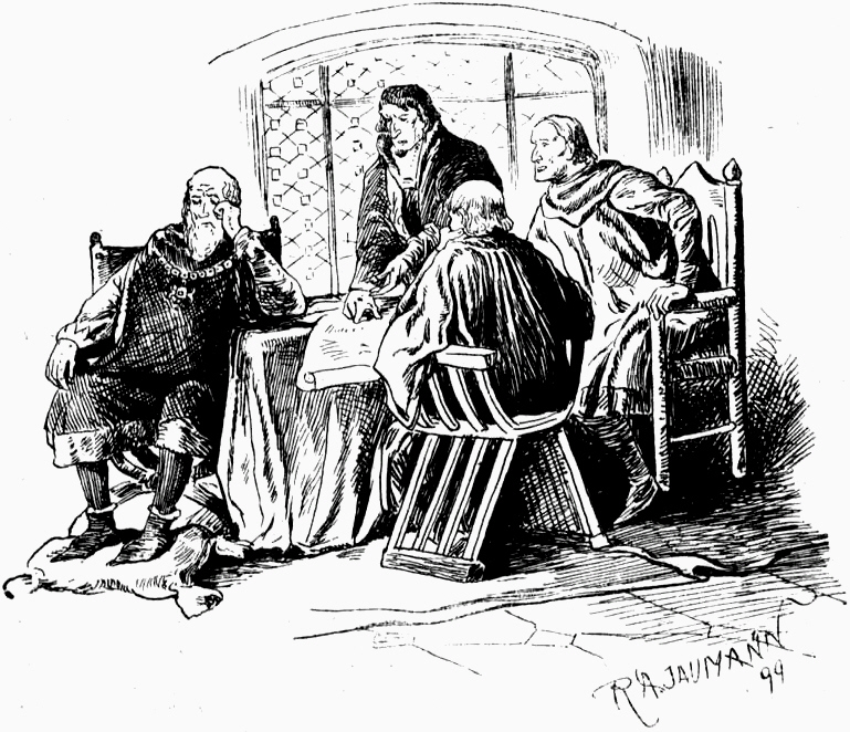 Duke Ernest of Bavaria-Munich with his councillors Aichstätter, Gundelfingen and Nothafft as drawn by R. A. Jaumann for Arthur Achleitner’s Bayern, wie es war und ist.